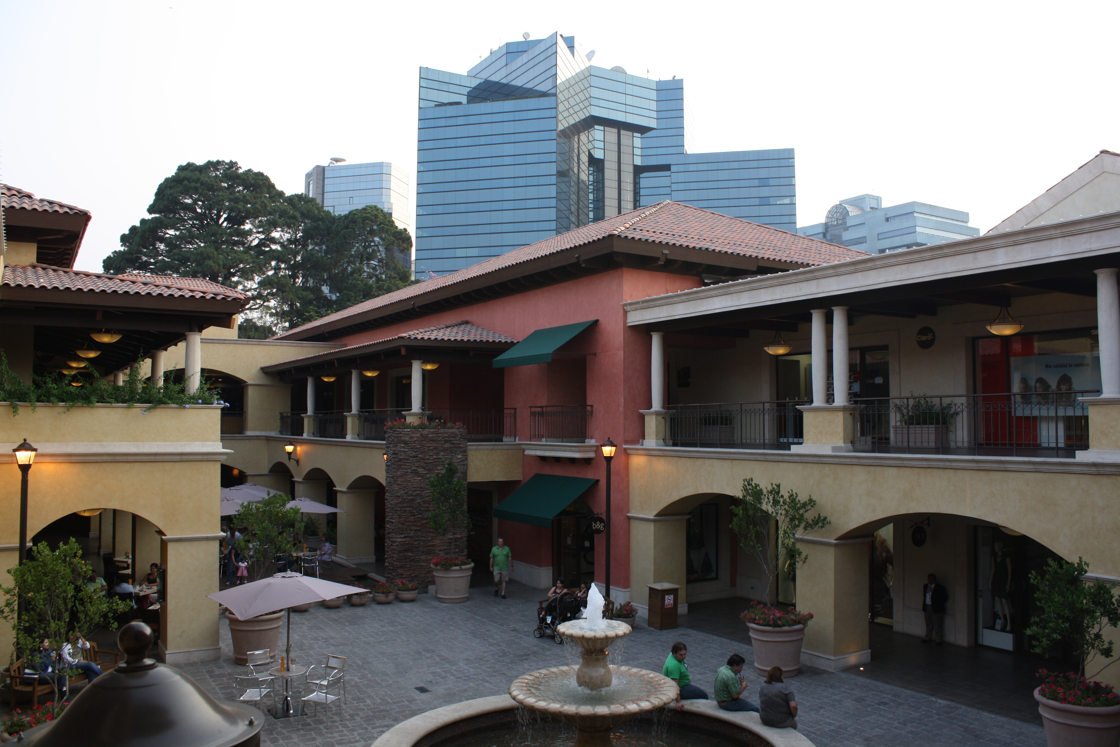 Plaza Fontabella lifestyle center with Edificio Atlantis in the background. Zone 10, Guatemala City.